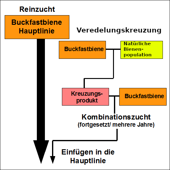 Diagram showing the dynamic breeding of Buckfast bees